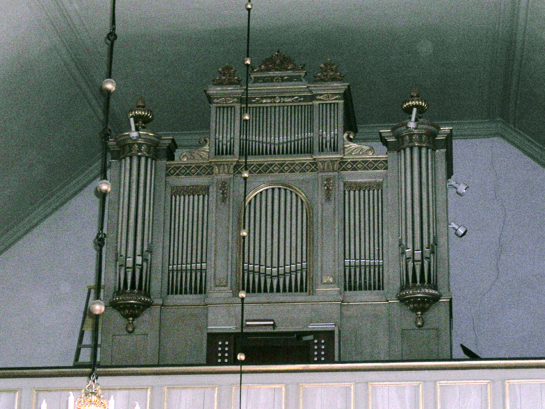 Sjögesta church. Organ.